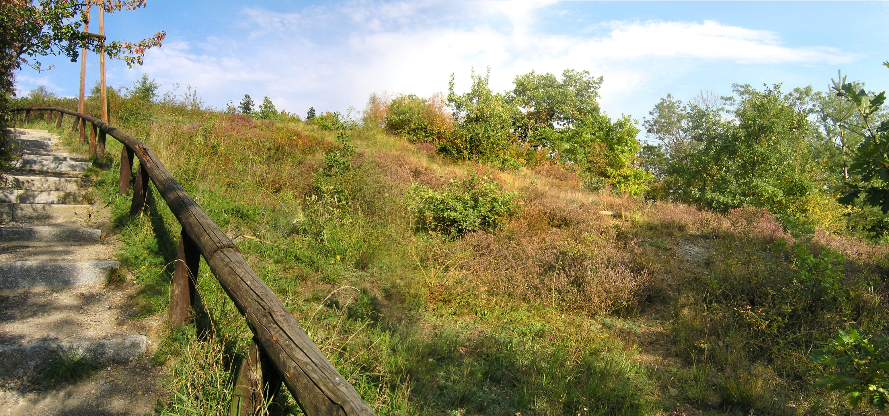 Small moorland in Havránka natural reserve in Troja, Prague